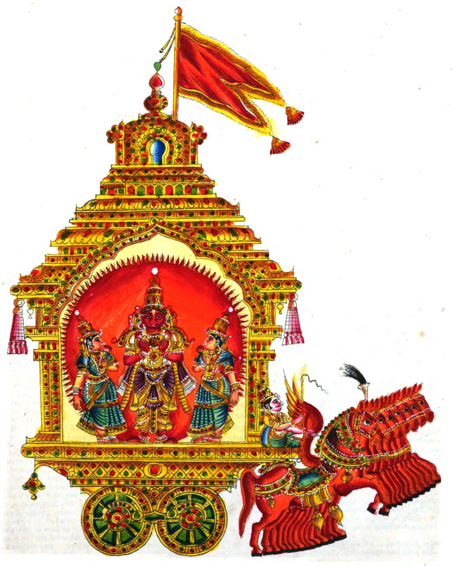 Surya